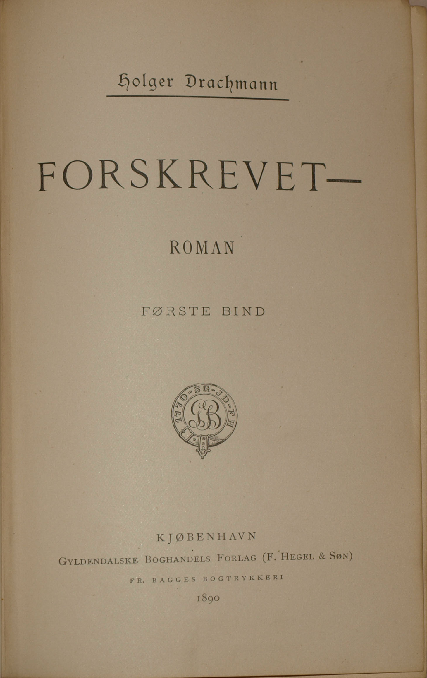 Titelbladet til første udgaven af Holger Drachmanns roman "Forskrevet" fra 1890.